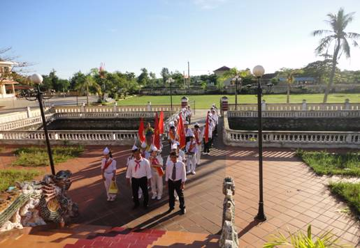 very good